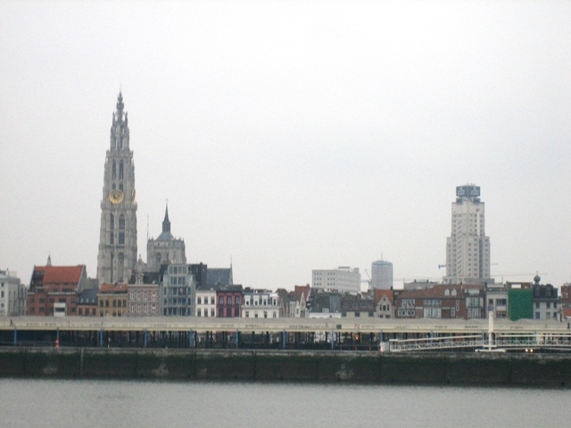 View from the left riverside on Antwerp